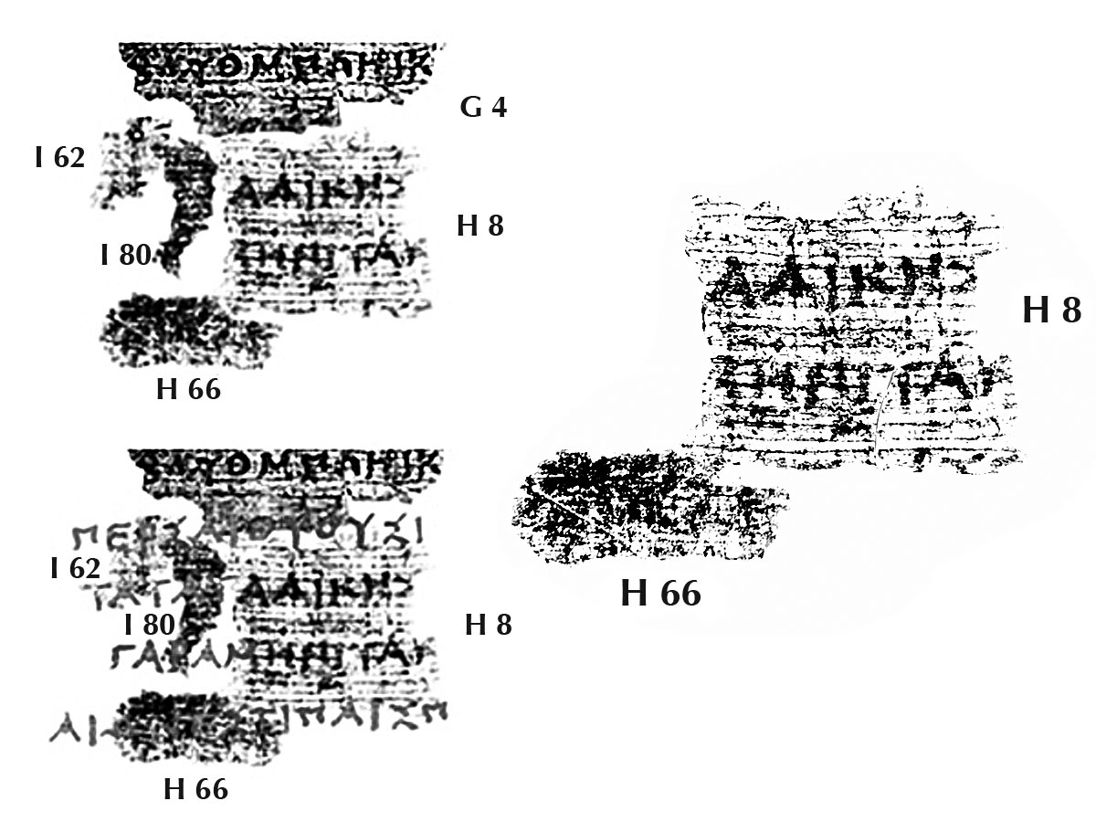 Several papyrus fragments regrouped, shown in the bottom left corner. (10) μὴ ἑὸμ μέγεθος ὑπερ]βατὸμ ποῆι κ[ Π]έ̣ρ̣σ̣α̣ι̣ θύο̣υ̣[σι(ν) κ]ατ̣ὰ̣ τ̣ὰ Δίκης [μέτρα (?) γὰ]ρ̣ [ἀ]μήνιτα κ[ '... Persian people make sacrifices ... so that (the sun) does not make surmountable its own size ... according to Dike’s rules ... not angry indeed ...'